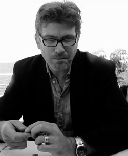 author Laird Hunt